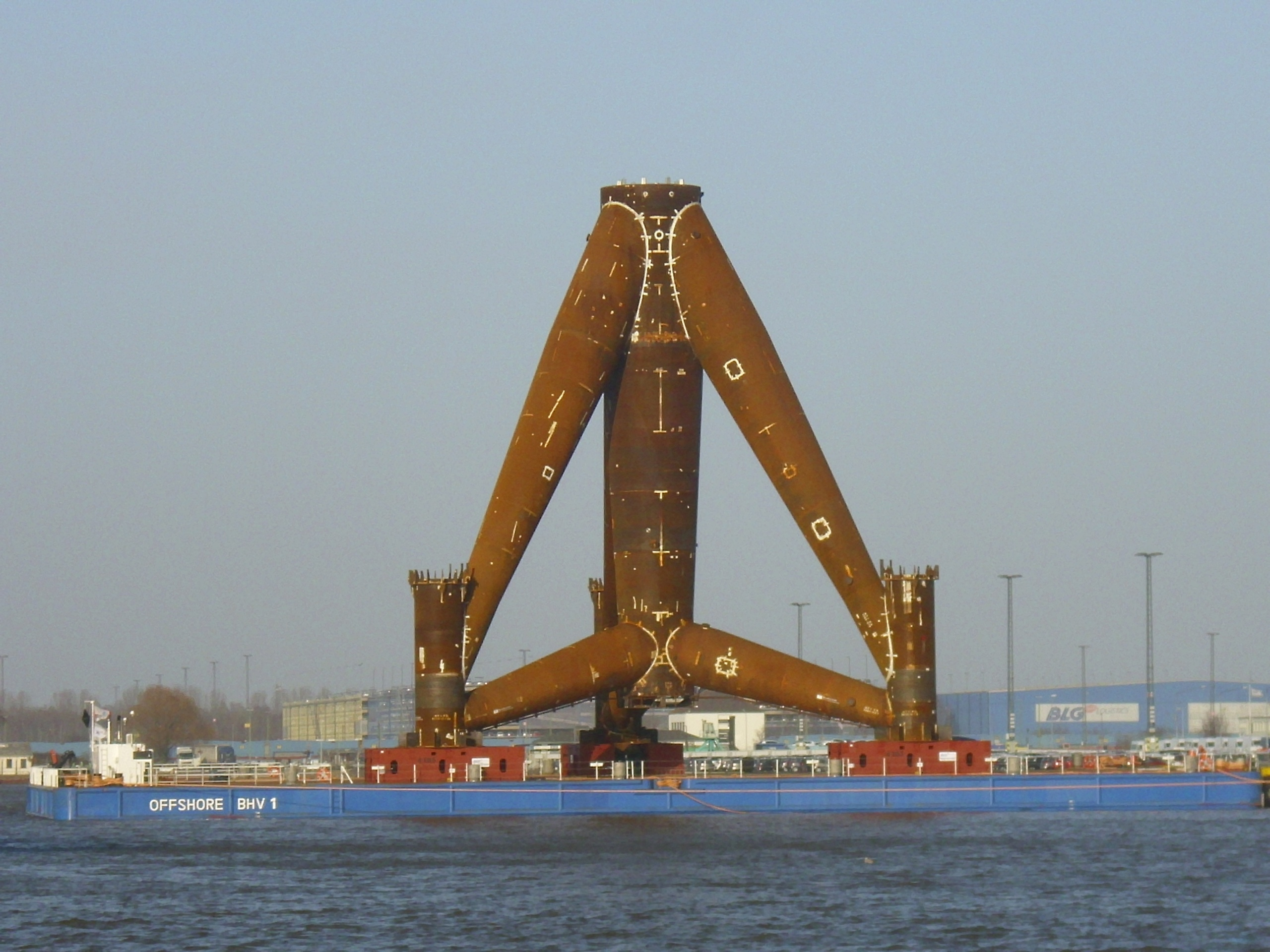 Tripod for offshore wind turbine in the port of Bremerhaven, Germany